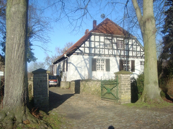 The stone bridge dating from 1424, is the oldest structure of Hunteburg.